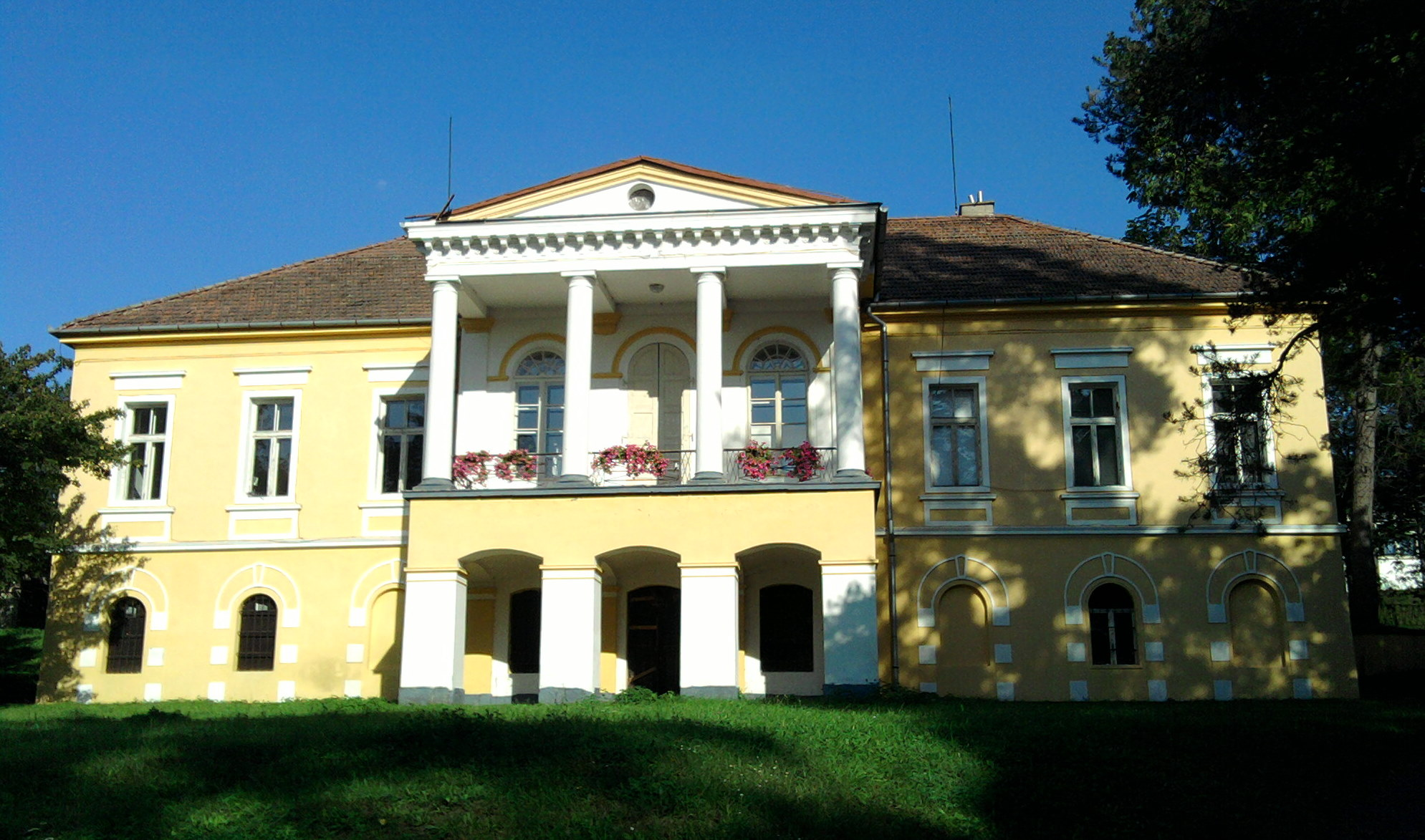 Manor house in Hontianske Moravce